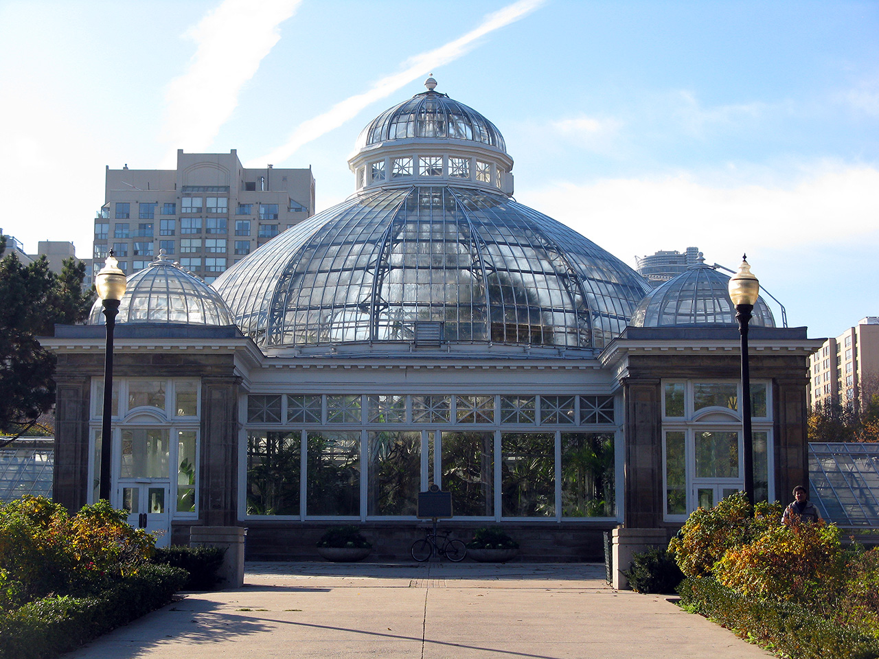 Allan Gardens' Palm House, in Toronto, Ontario, Canada.